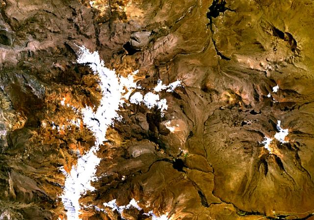 The three roughly E-W-trending cones at the center of this NASA Landsat image (with north to the top) form the Nevados Casiri complex, the southernmost Holocene volcano in Perú. A fourth cone, the youngest of the complex, lies on the SE side and was the source of two fresh Holocene lava flows, which form the dark-colored lobes visible south of the massif. Two sulfur mines have been opened on the NW and SE flanks of Nevados Casiri.